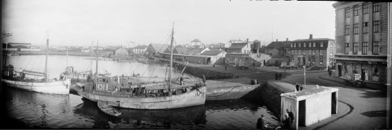 Um 1930, vélbátar við bryggju í Reykjavíkurhöfn, Eimskipafélagshúsið. Pósthússtræti. Ljósmyndari / Photographer: Magnús Ólafsson Format: Blaðfilma / Sheet Film, 10 x 29 cm. Höfundarréttur / Rights Info: Enginn þekktur höfundarréttur / No known restrictions on publication. Geymsla / Repository: Ljósmyndasafn Reykjavíkur / Reykjavík Museum of Photography, Tryggvagata 15, 6. Hæð / 6th floor Númer myndar / Call Number: MAÓ 2473 Myndavefur Ljósmyndasafnsins / Reykjavík Museum of Photography´s photoweb: ljosmyndasafn.reykjavik.is/fotoweb/Grid.fwx